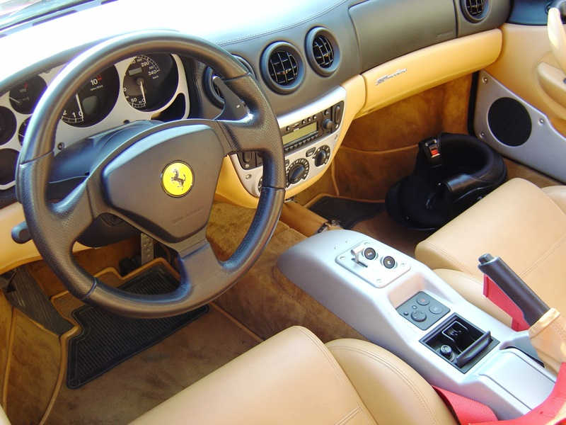 The interior of a Ferrari 360 Modena